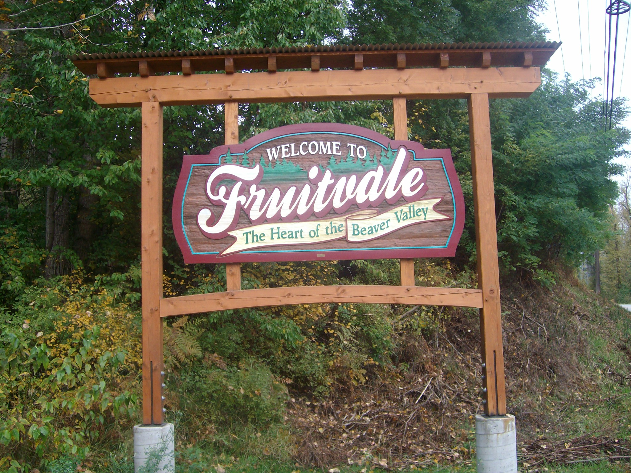 Fruitvale roadside welcome sign